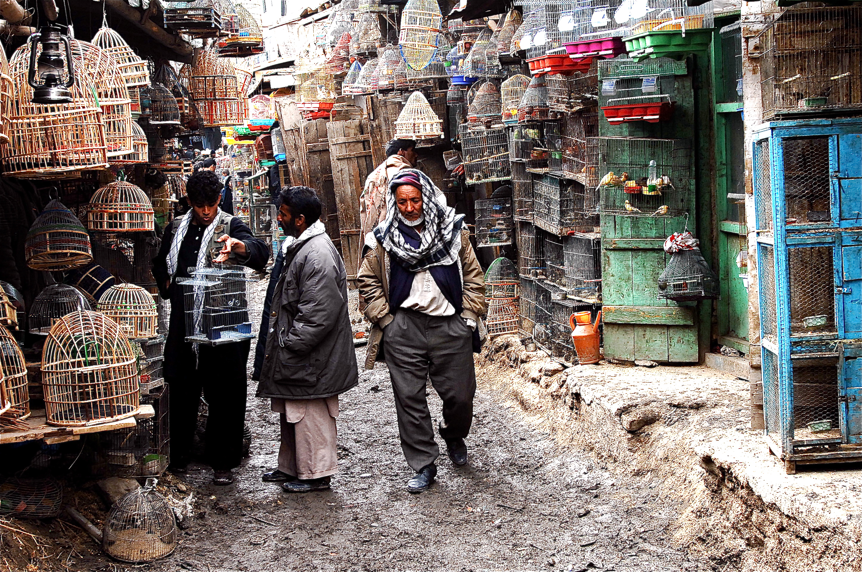 Ka Firushi – Bird market, Kabul. Photo by Iain Cochrane of Scotland, the United Kingdom.